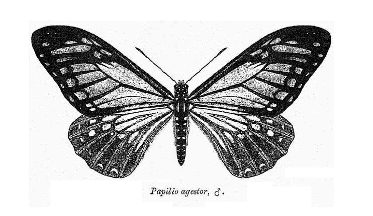 Male Papilio agestor Gray, 1831